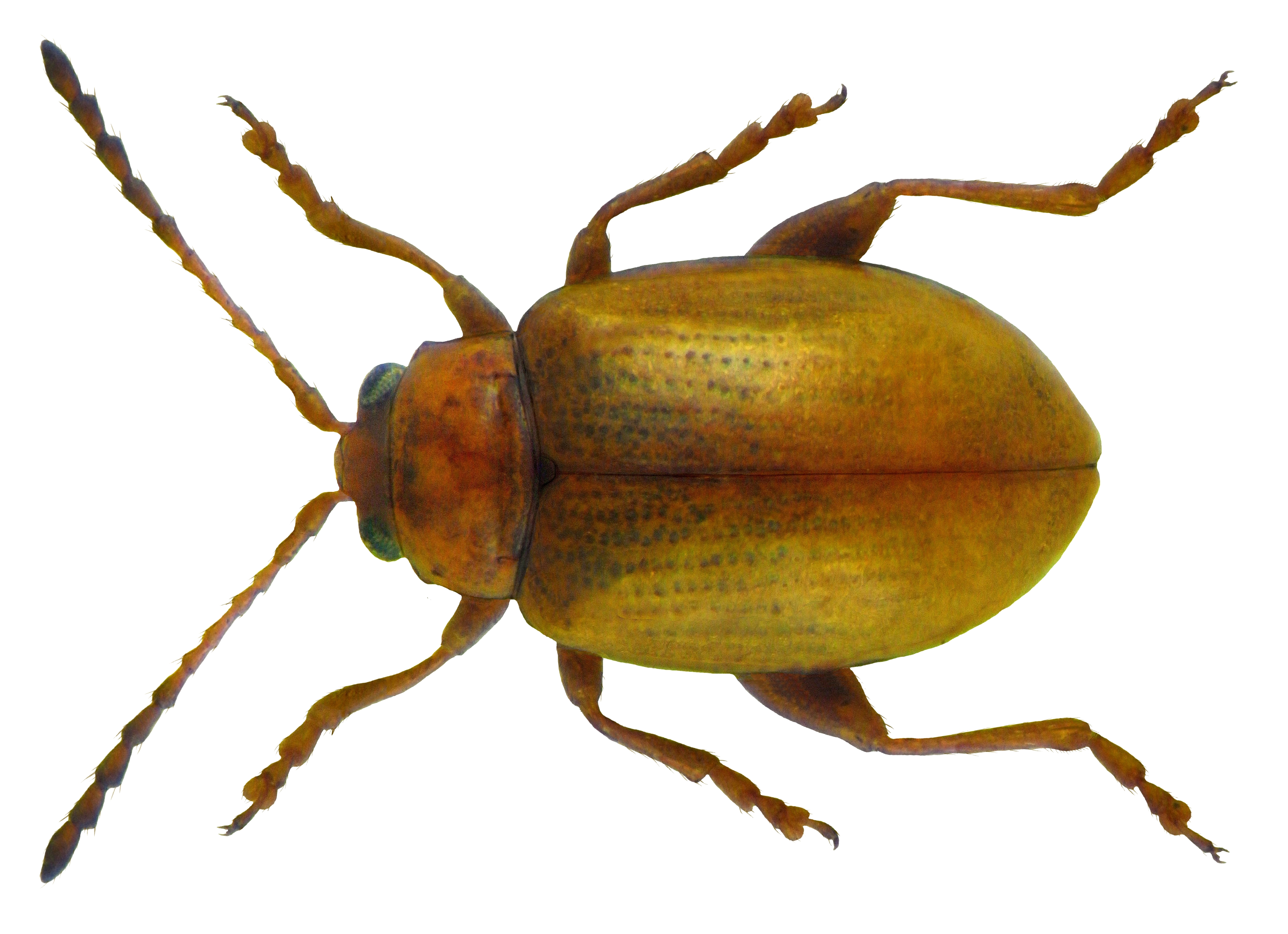 Family: Chrysomelidae Size: 1.8-2.4 mm Distribution: Mediterranean, north to central Europe Ecology: on Solanum dulcamara, Anagallis arvensis, Pistacia lentiscus Location: England leg P.Harwood, 1957, Coll. Museum of Oxford Photo: U.Schmidt, 2011